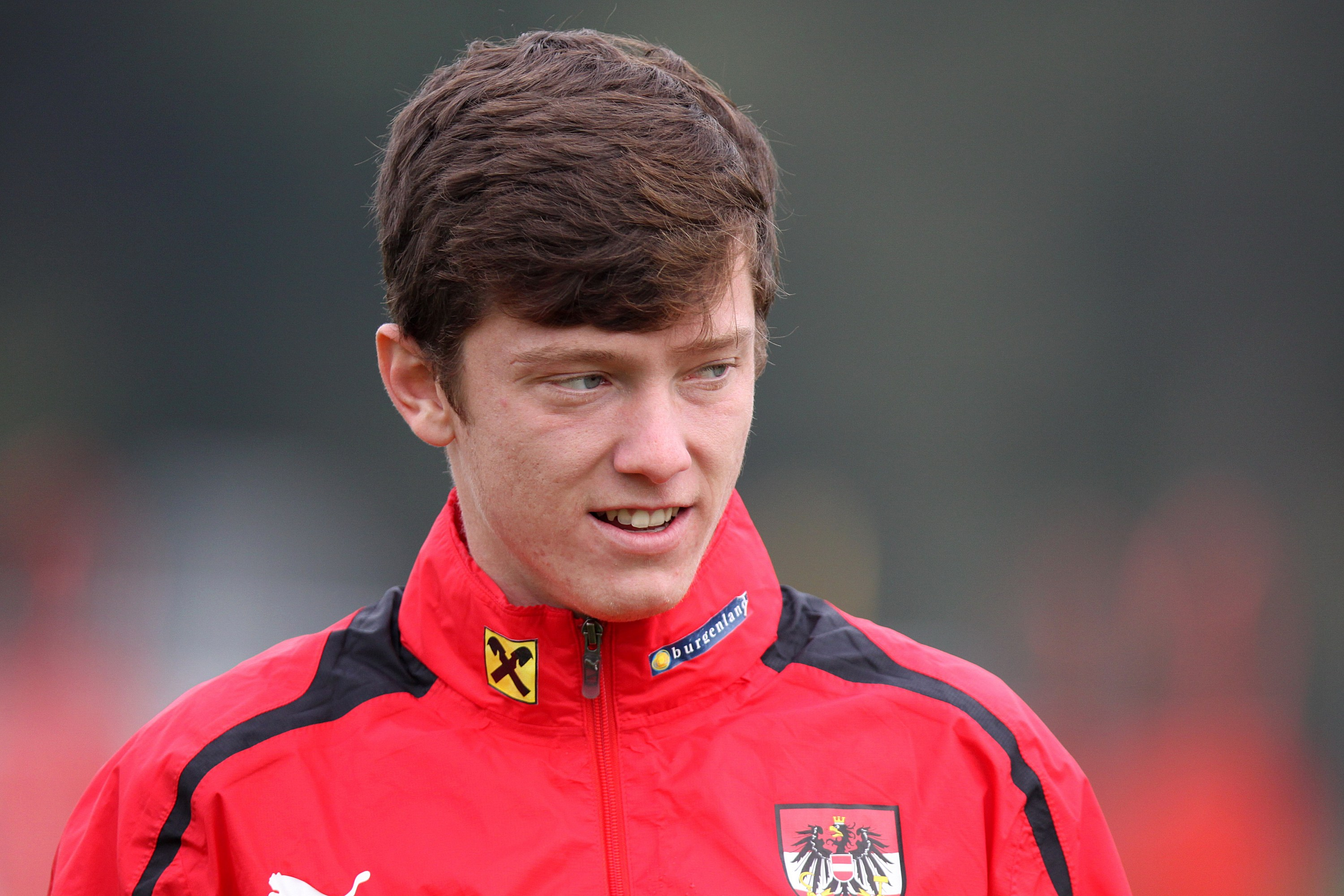 Teamcamp of the Austria national under-21 football team on 5.–9. October 2015 in Bad Erlach – The photo shows Michael Gregoritsch (Hamburger SV).